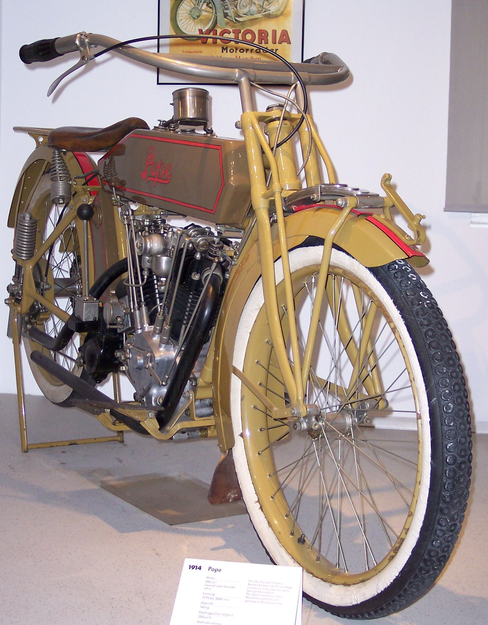 Pope 1914, own image